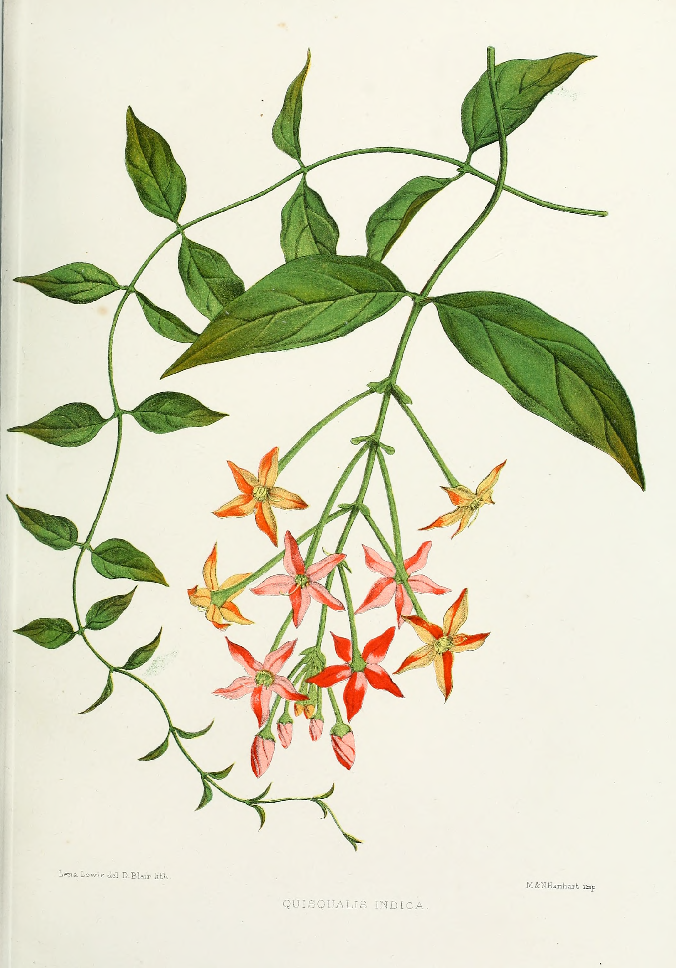 Colour drawing of quisqualis-indica from Familiar Indian Flowers (1878) by Lena Lowis.